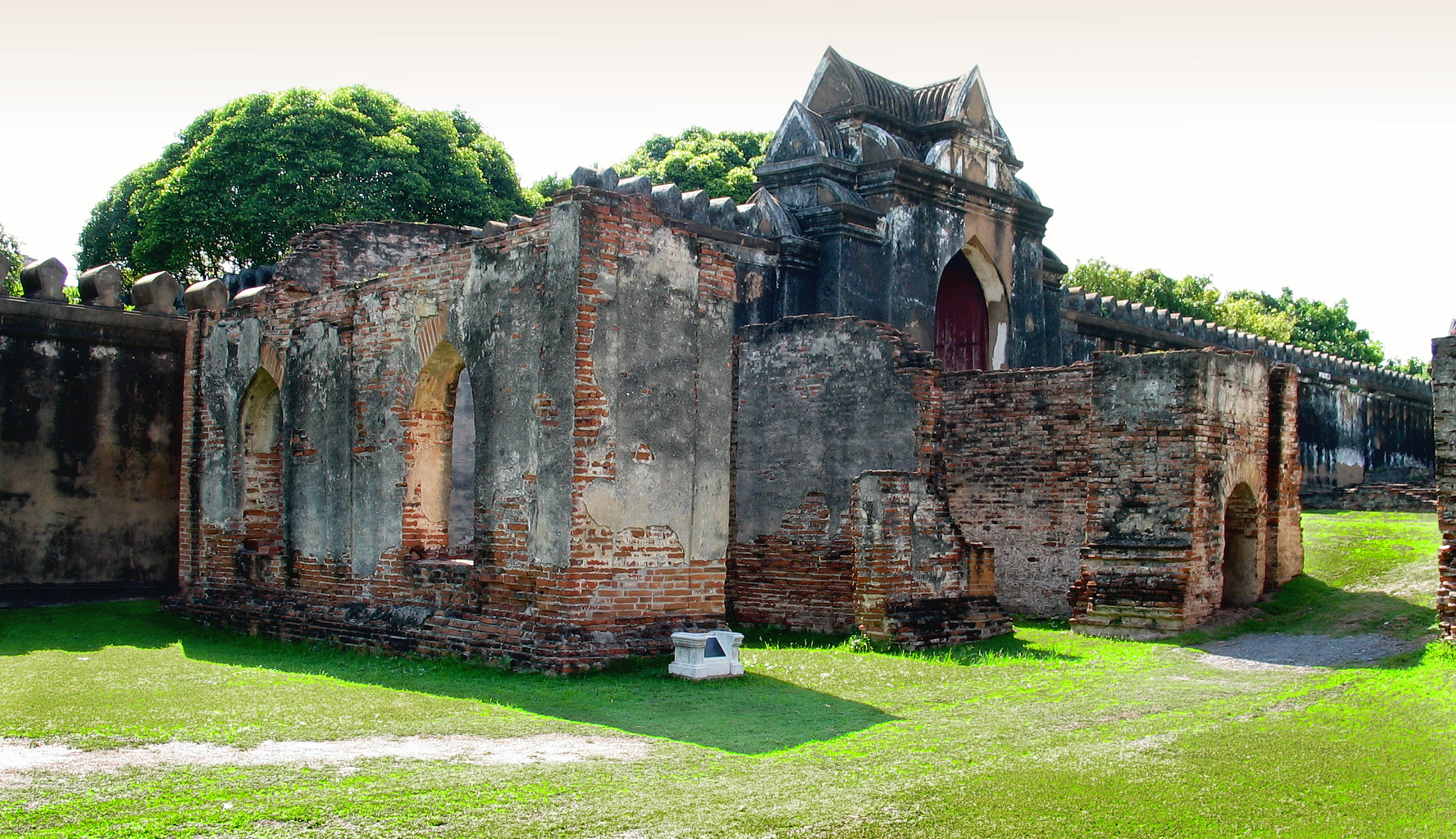 Royal Elephant Stable within King Narai's Palace, Lopburi, central Thailand